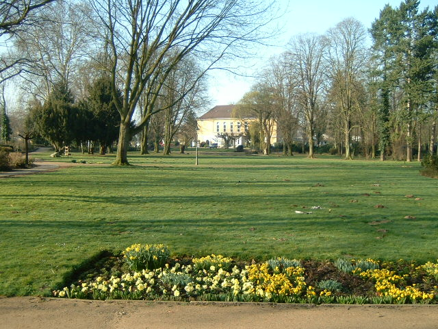 Bad Vilbel, town in Hesse. Here: Kurhaus and Kurpark